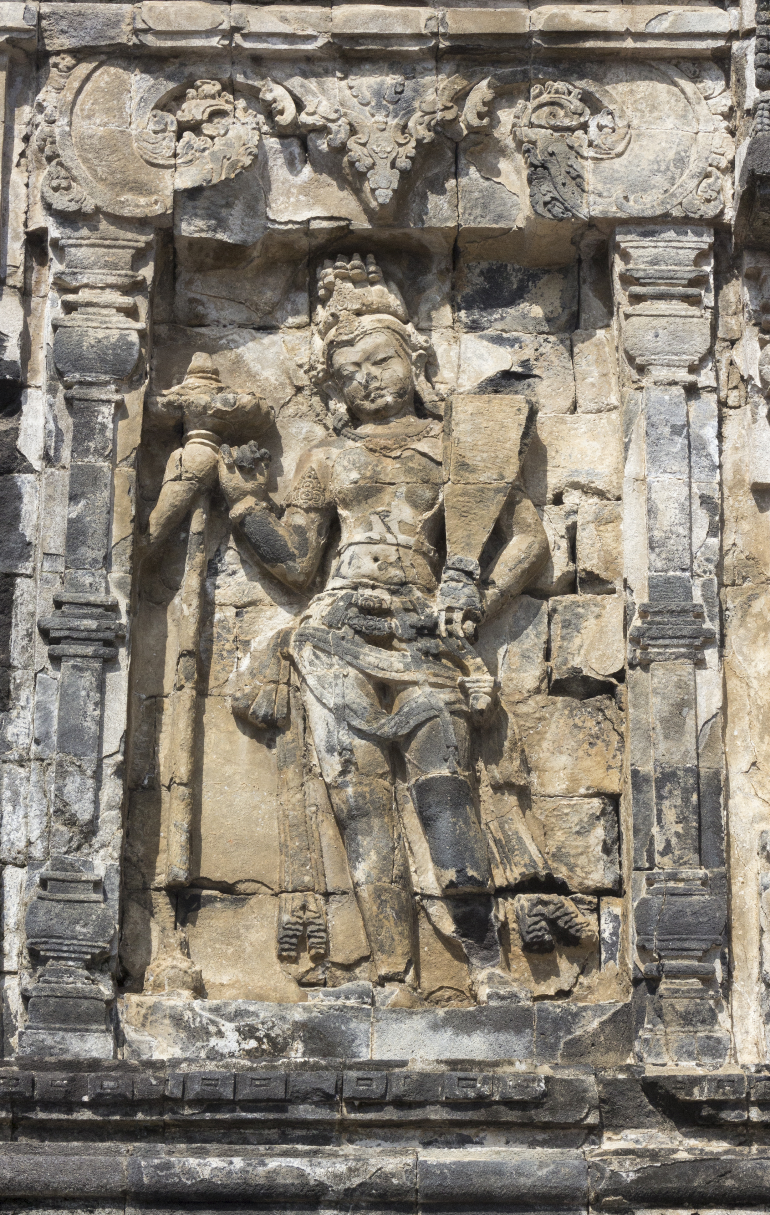 Relief on wall of Sari Temple